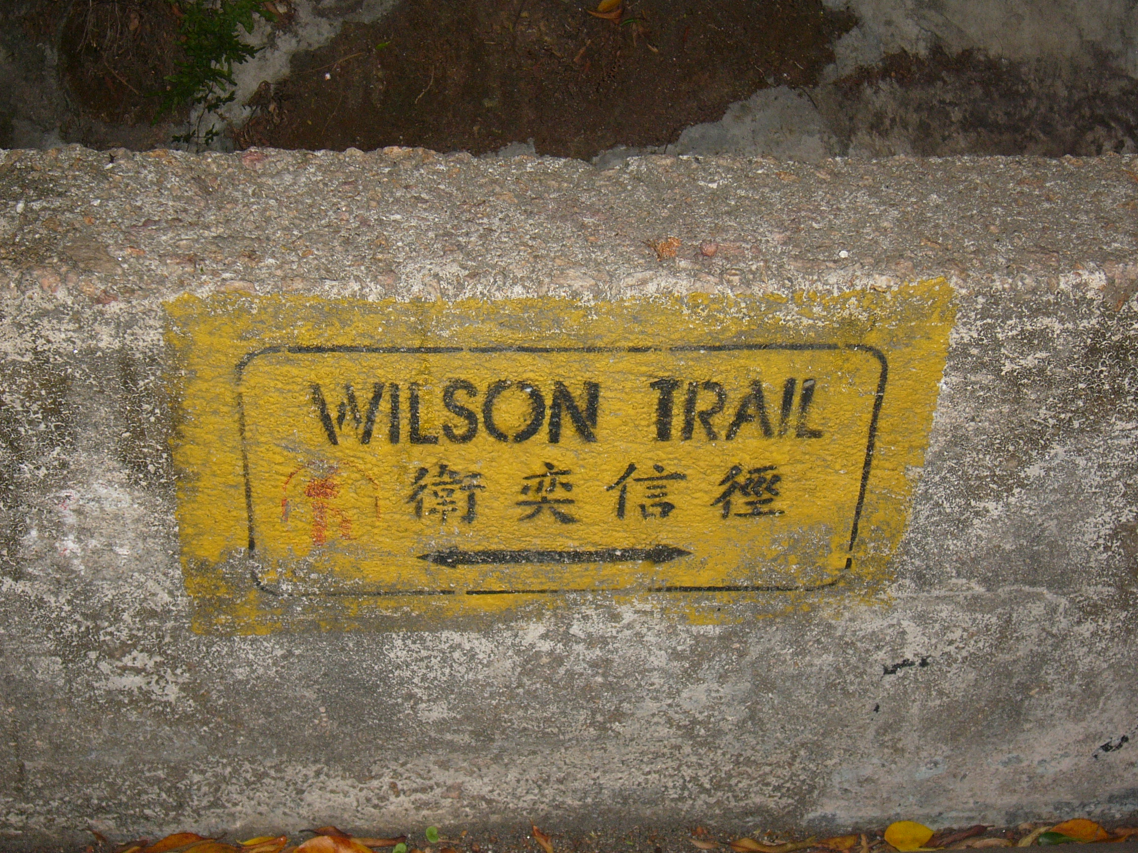 Roadsign along Lei Yue Mun Road, part of Wilson Trail stage 3. Photo taken by Deryck Chan of Hong Kong (deryckchan [at] gmail [dot] com) Please cite as above when this image is used outside Wikipedia.